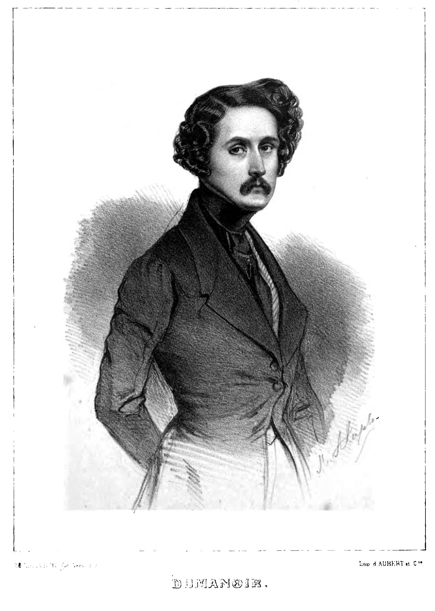 Philippe François Pinel, known as Dumanoir (31 July 1806 – 16 November 1865) was a French playwright and librettist.